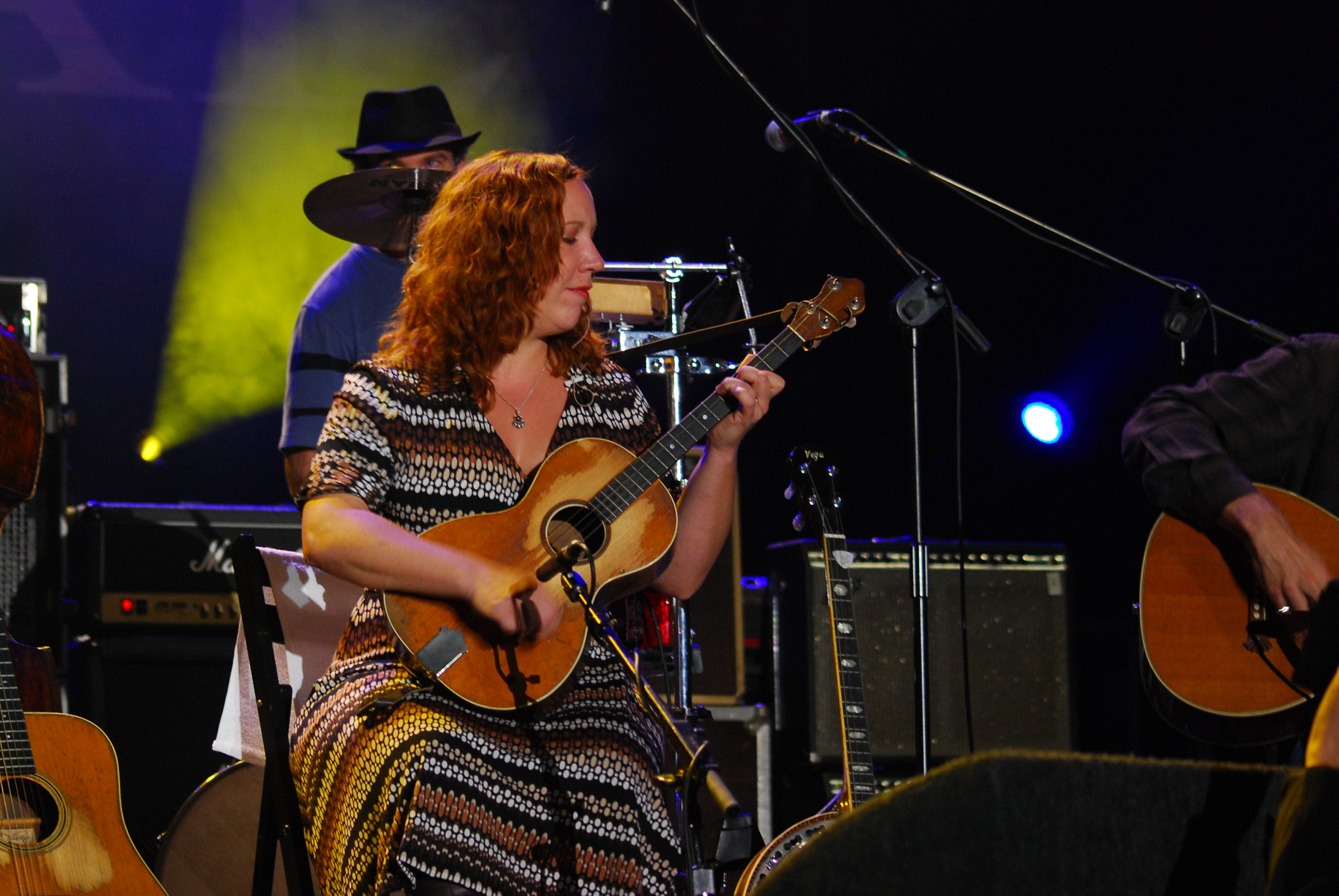 Christina Marrs from Asylum Street Spankers during 27. edycji Rawy Blues Festival